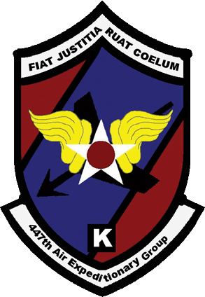 Emblem of the 447th Air Expeditionary Group of the United States Air Force